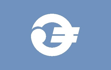 Flag of Matsushima Miyagi